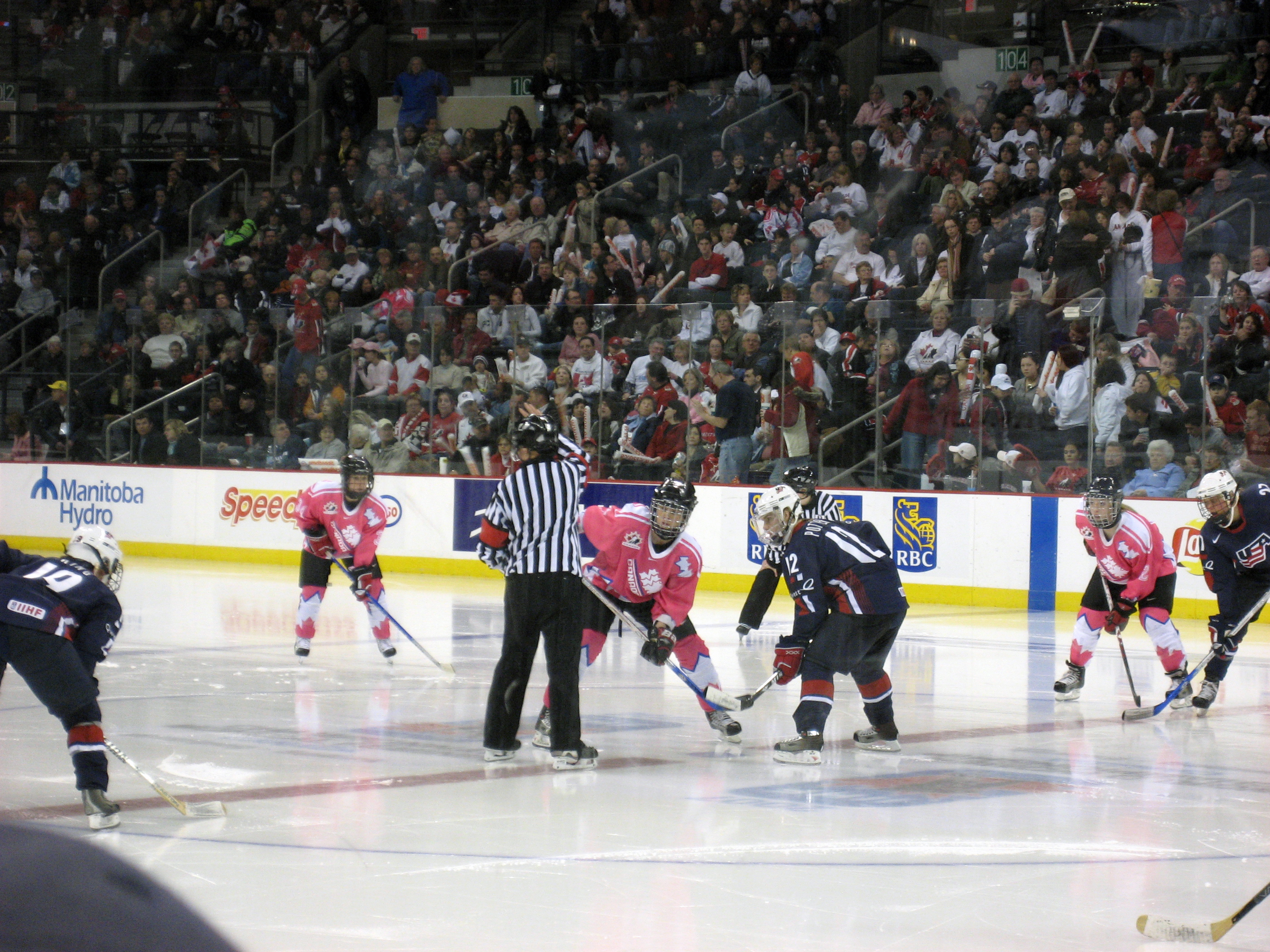 Women's World Championship Hockey, USA vs. CAN